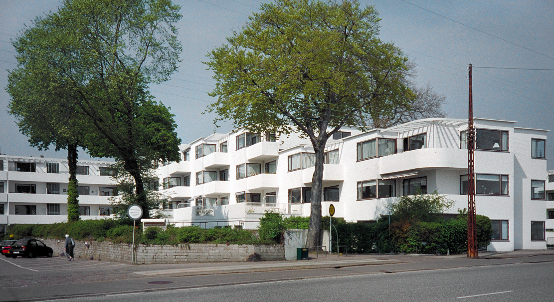 Bellavista housing, south facade. Strandvejen 419-451, Klampenborg (Copenhagen, Denmark) Architect Arne Jacobsen 1932-34.